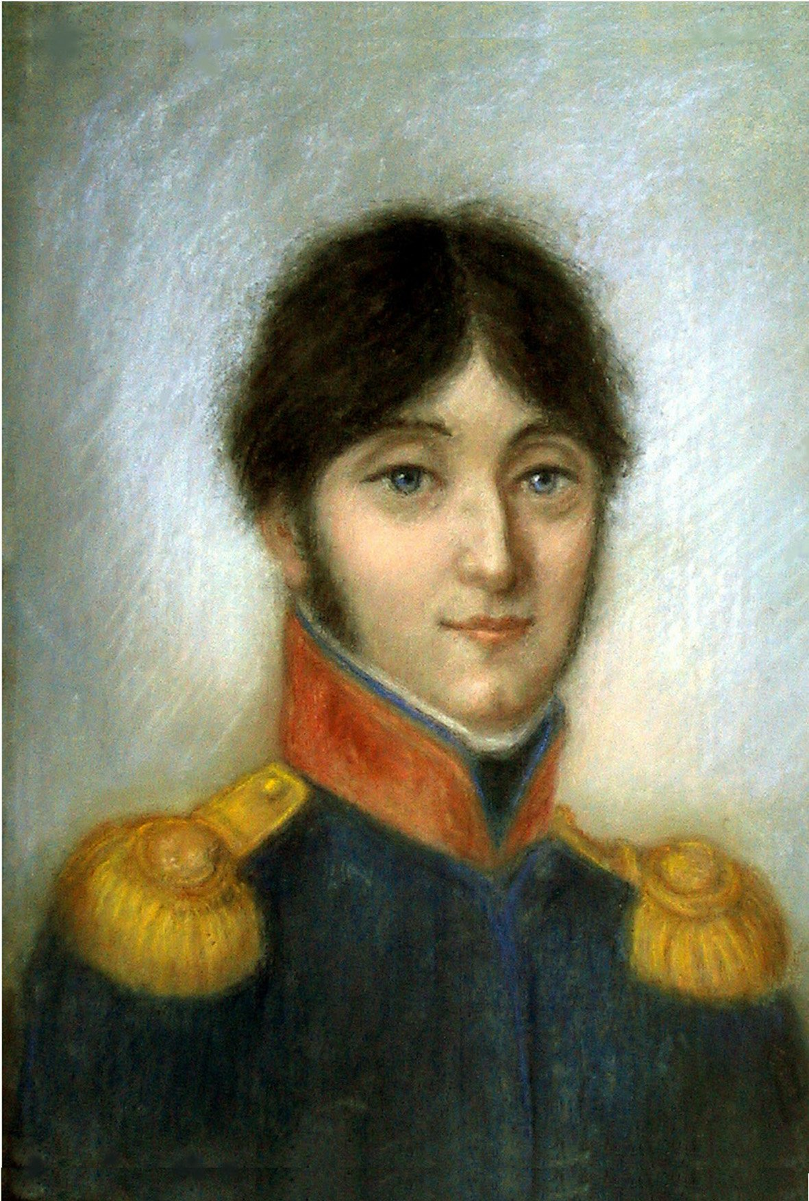 Portrait of Jean-Baptiste Girard, Jean-Baptiste Girard (born on 21 February 1775 at Aups, in Var - died on 27 June 1815 in Paris), was a French soldier, général and baron d'Empire, who fought in the French Revolutionary Wars and the Napoleonic Wars.